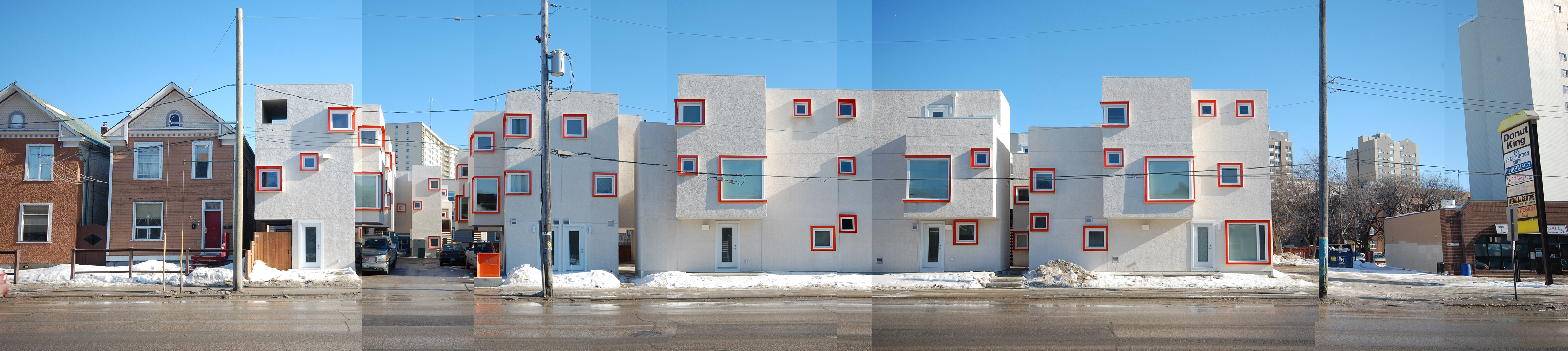 Centre Village by 5468796 Architecture, Winnipeg, Manitoba